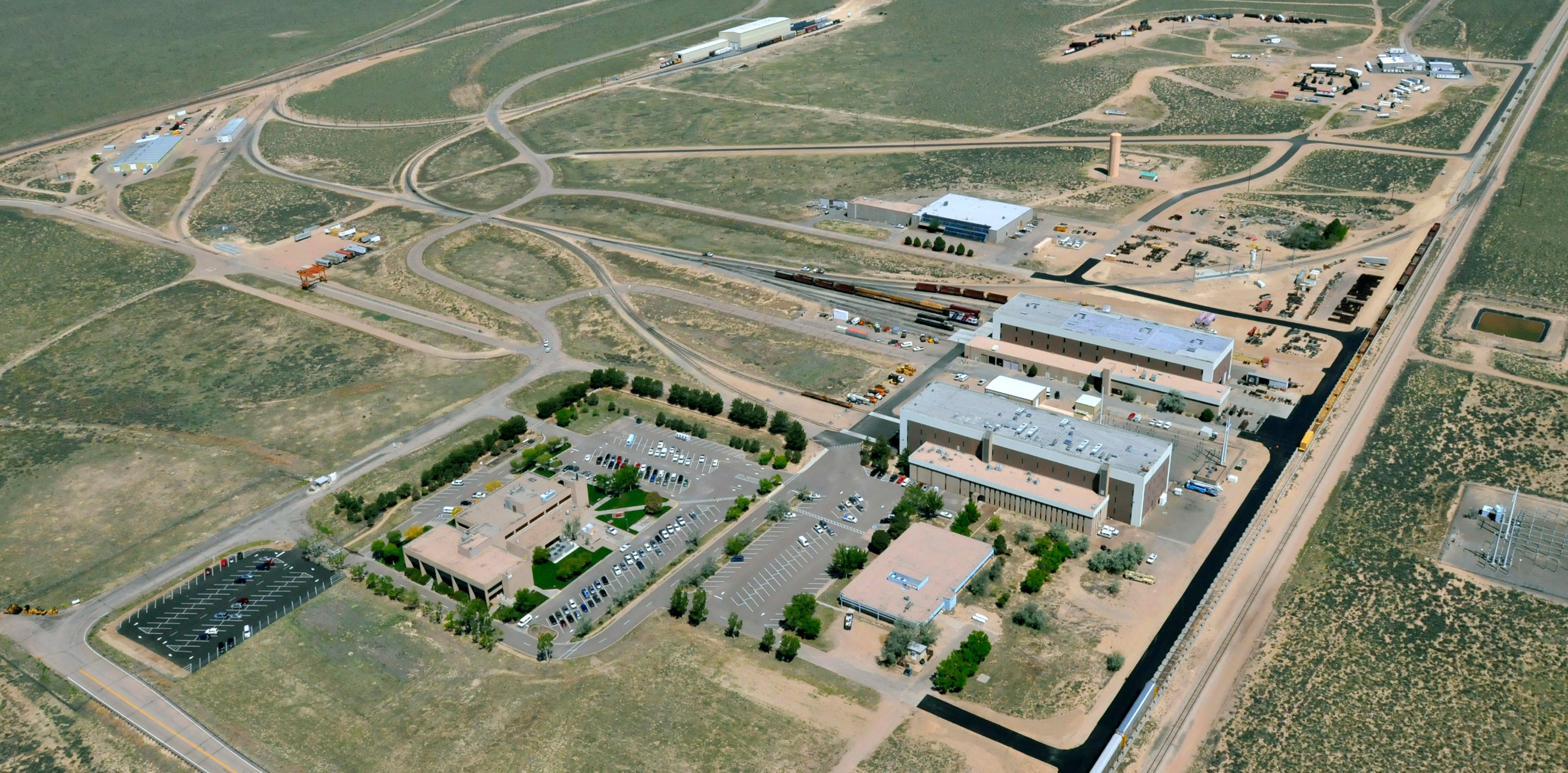 TTCI Facility